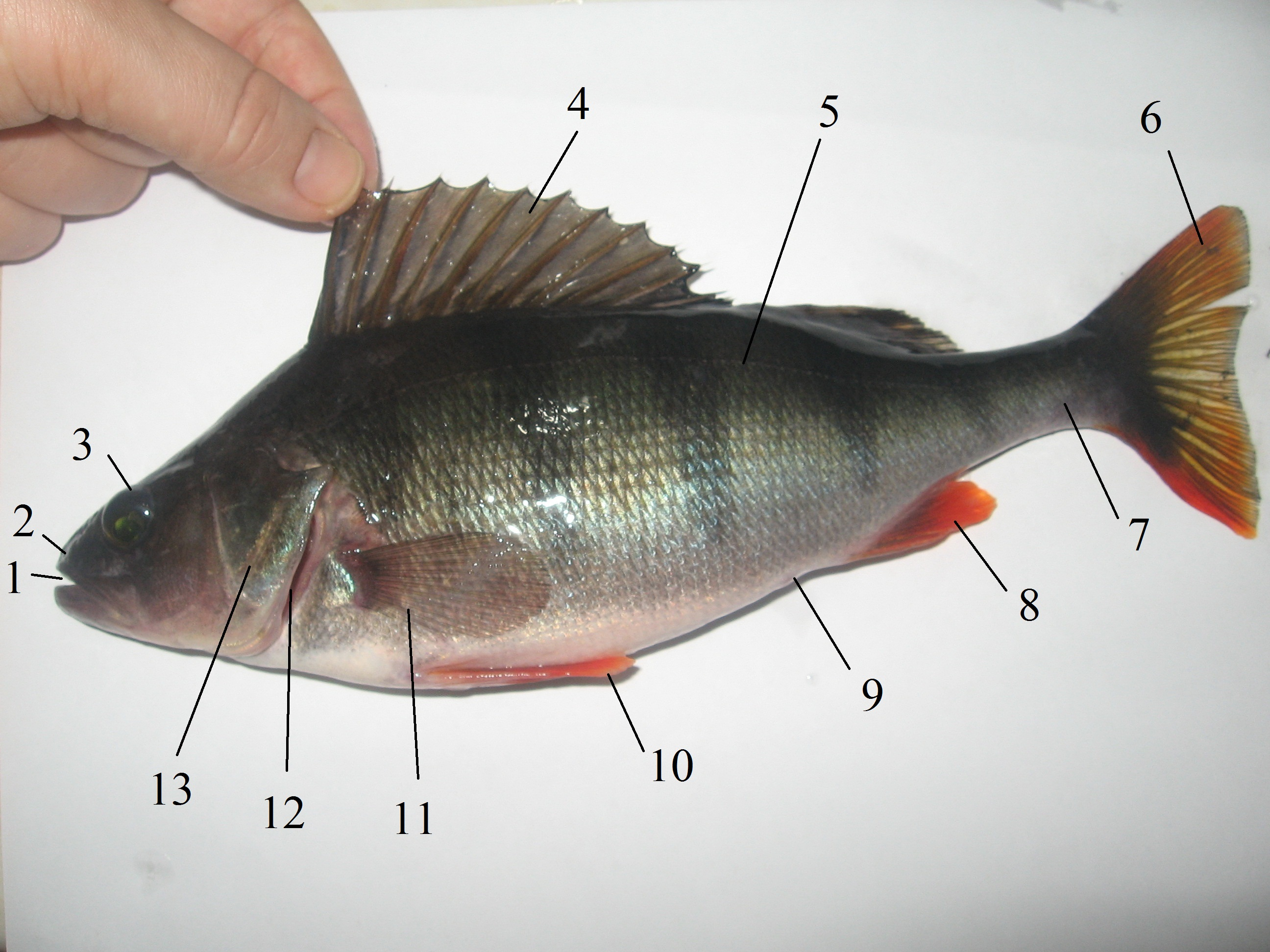 1 - Mouth, 2 - nostril, 3 - eyes, 4 - the dorsal fin, 5 - lateral line, 6 - tail fin, 7 - caudal peduncle, 8 - anal fin, 9 - the anus, 10 - the ventral fin, 11 - pectoral fin, 12 - gill slit, 13 - gill lid